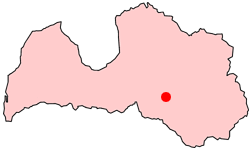 Location map of Jēkabpils city, Latvia.